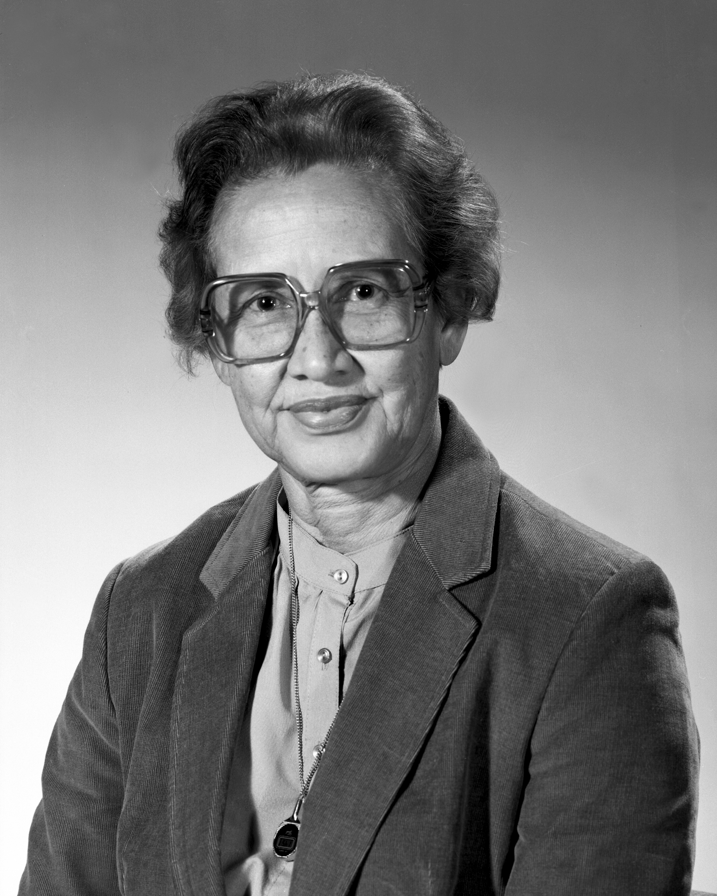 Katherine Johnson, also Katherine Coleman Goble Johnson, 1983; see NASA bio at